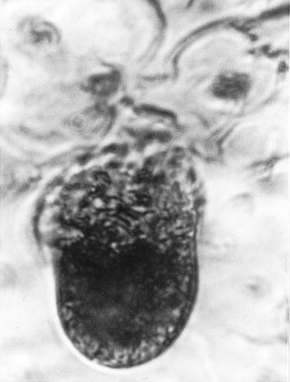 Photo and drawing of Trichonymphites henis n. gen., n. sp. H = holdfast, F = rostral flagellum, n = putative nucleus. Bar = 11 μm.